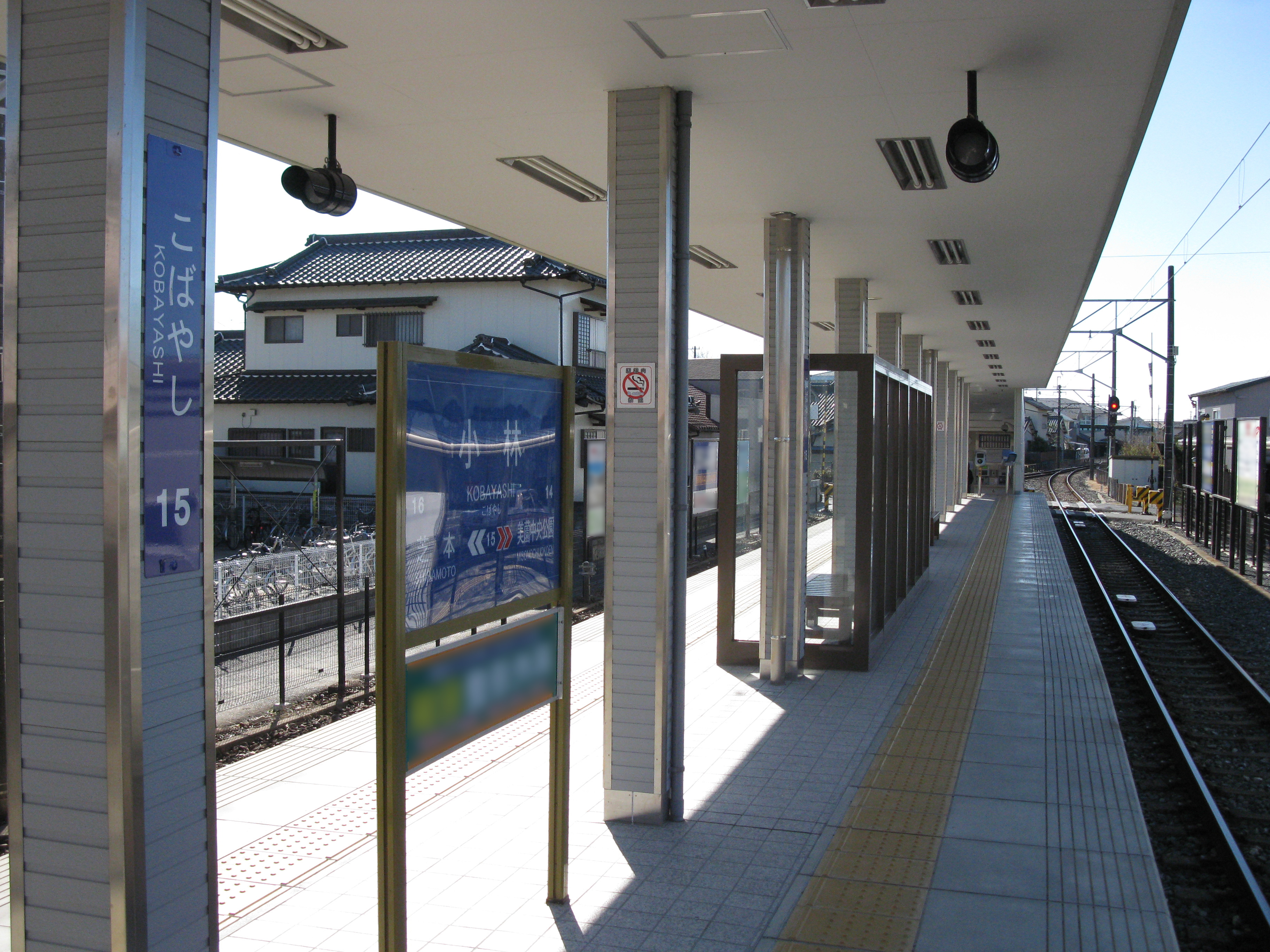 Enshū-Kobayashi Station platform (Enshū Railway Line)